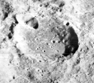 Oblique view of Seidel crater, on the far side of the moon, facing roughly south.